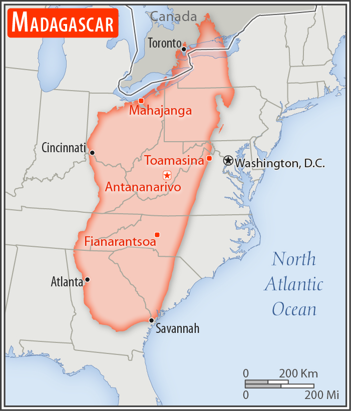 Comparison of the areas of two country. The area of Madagascar with biggest cities (red) overlay the area of the United States of America (gray background).